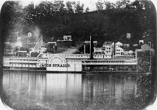 1853 taken in Cincinnati Boatyard